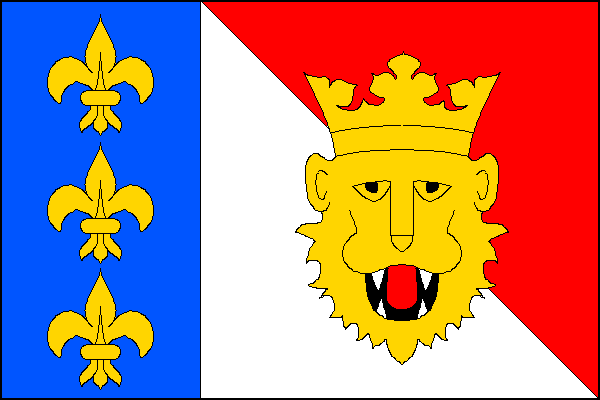 Municipal flag of Uherčice village, Znojmo District, Czech Republic.